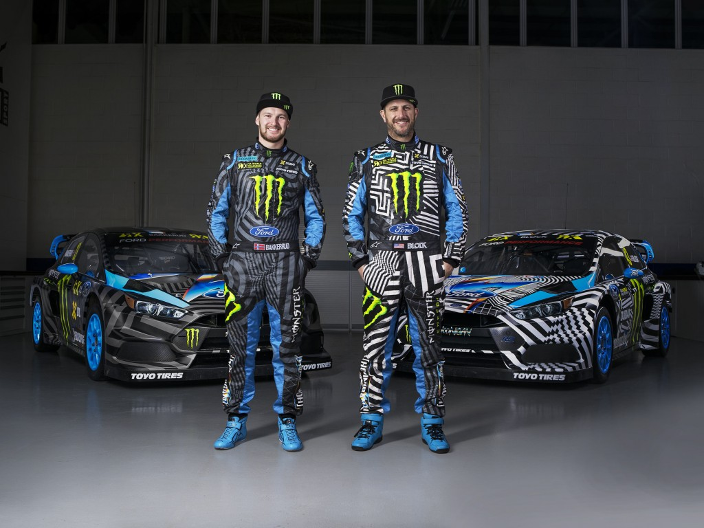 The Ford Focus RS RX of Hoonigan Racing Division. These are the 2016 World Rallycross Championship cars of Ken Block (right) and Andreas Bakkerud.